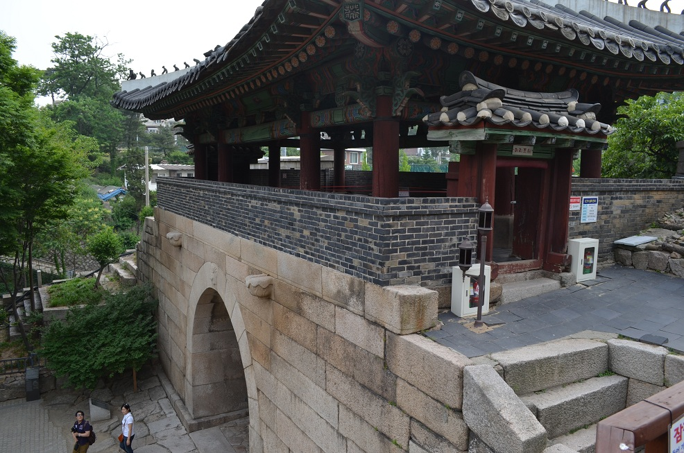 Changuimun Gate, also known as Northwast Gate or Buksomun, Seoul, South Korea. Photographed June 6, 2012.